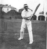 American cricketer John A Lester in front of the main building of the Merrion Cricket Ground at Haverford College in Haverford, Pennsylvania.